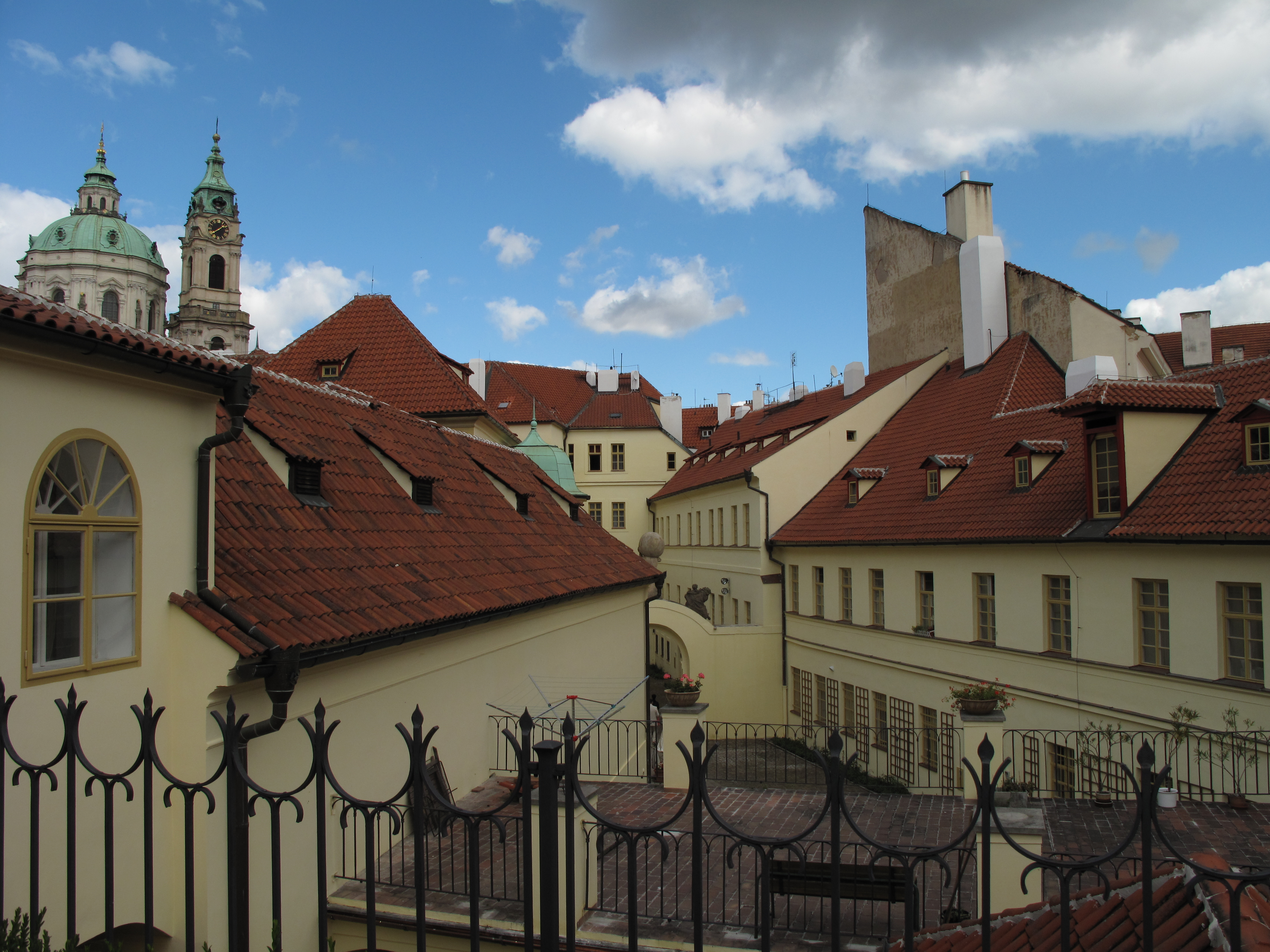 South wing of Vrtba palace (on the right) and small street leading to the vineyards of the past. Prague, Lesser Quarter, Czech Republic.